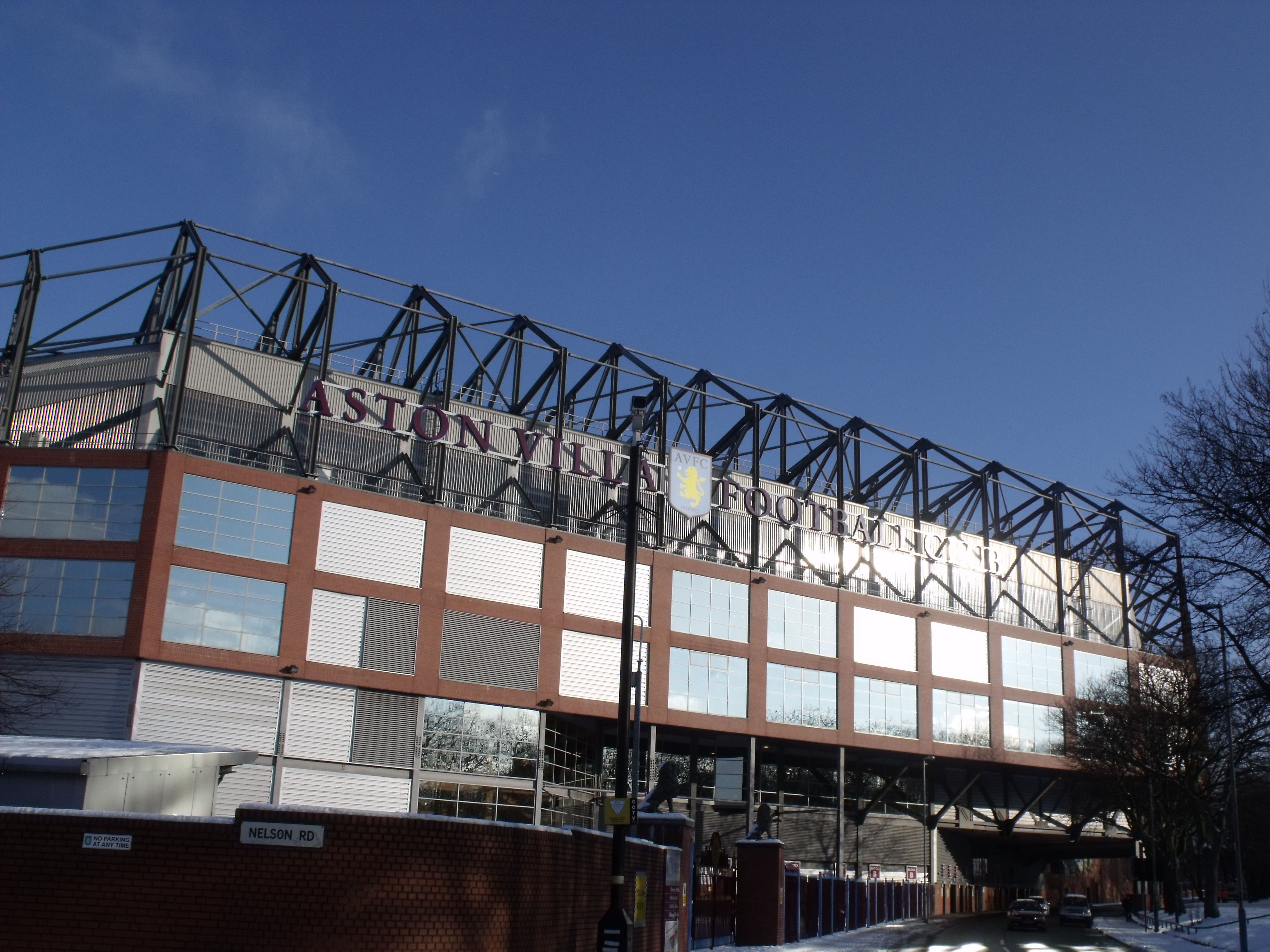 The facade of the Trinity Road Stand of Villa Park. It was completed in 2001.